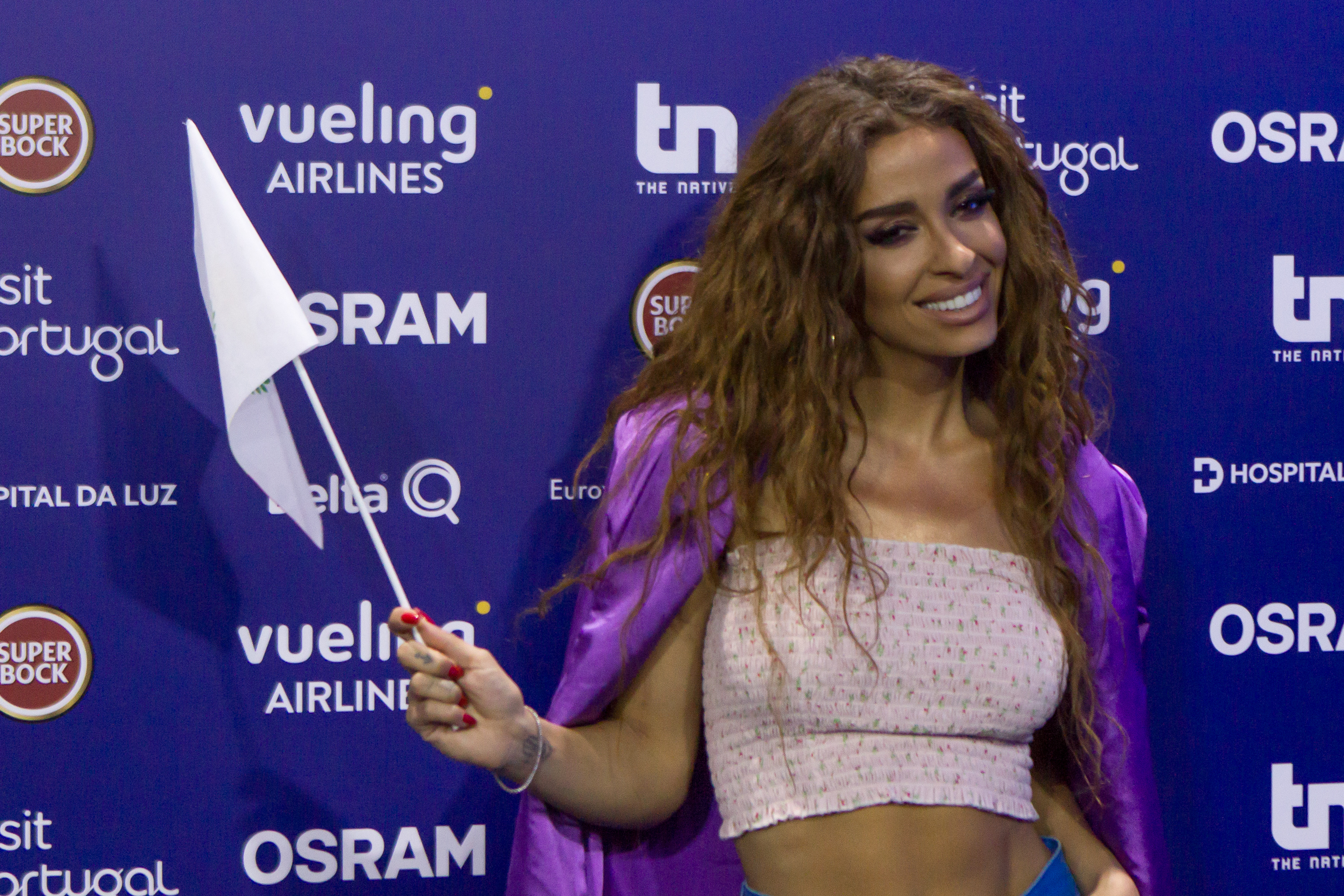 Press conference after the first Semi-Final of the 2018 Eurovision Song Contest